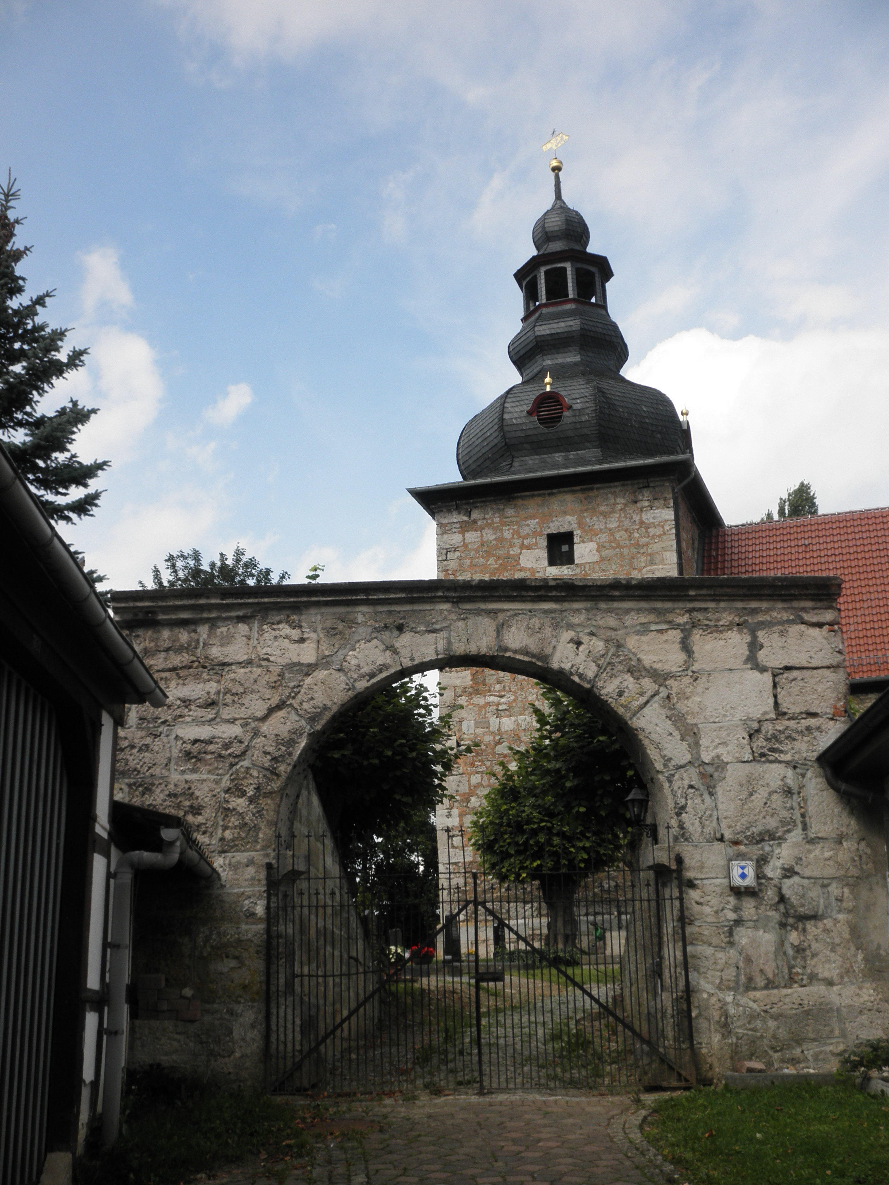 Church and Gate in Dörna in Thuringia